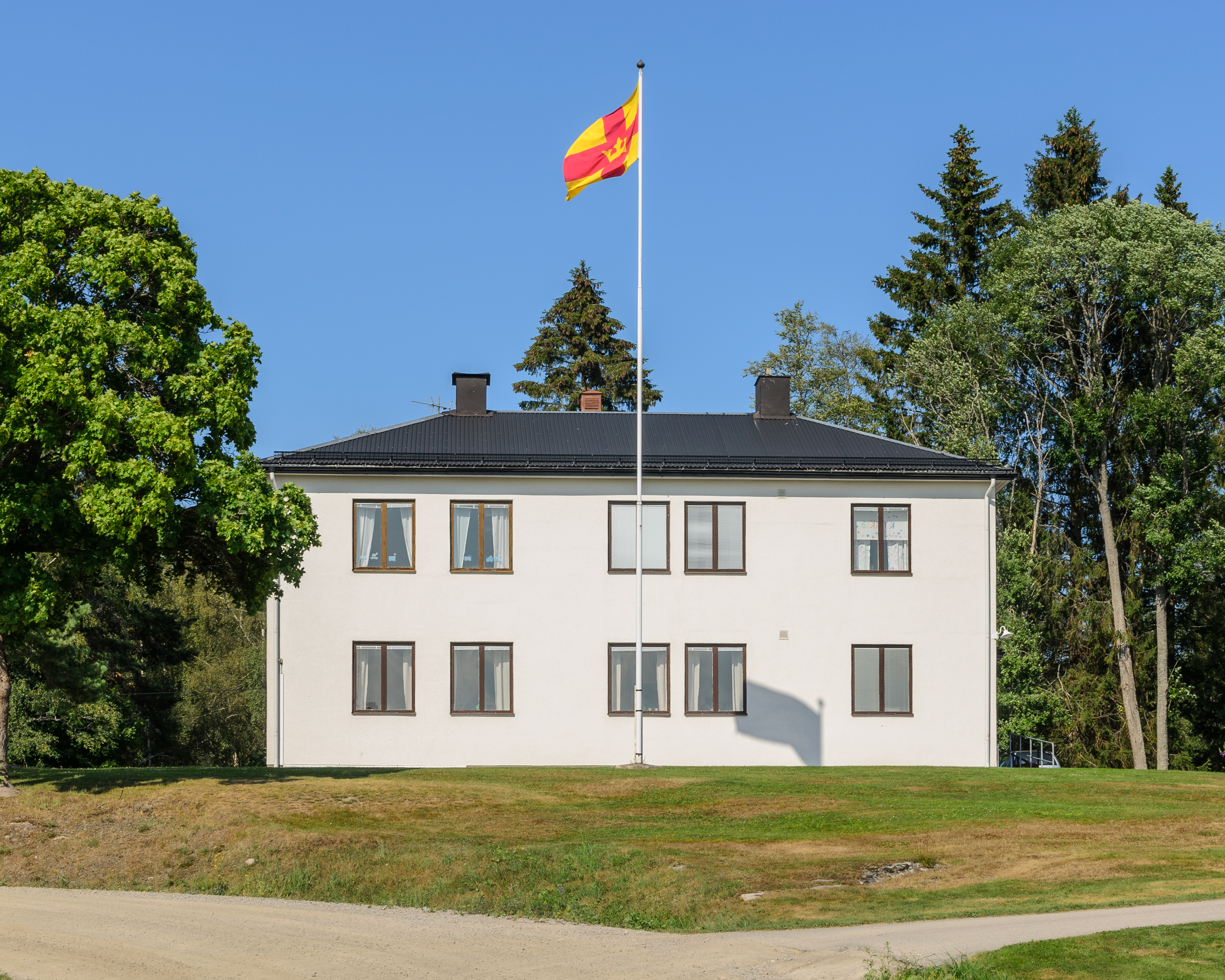 Parish building next to Rogsta church outside Hudiksvall. Church of Sweden, Diocese of Uppsala, Hudikvallsbyggden Parish.